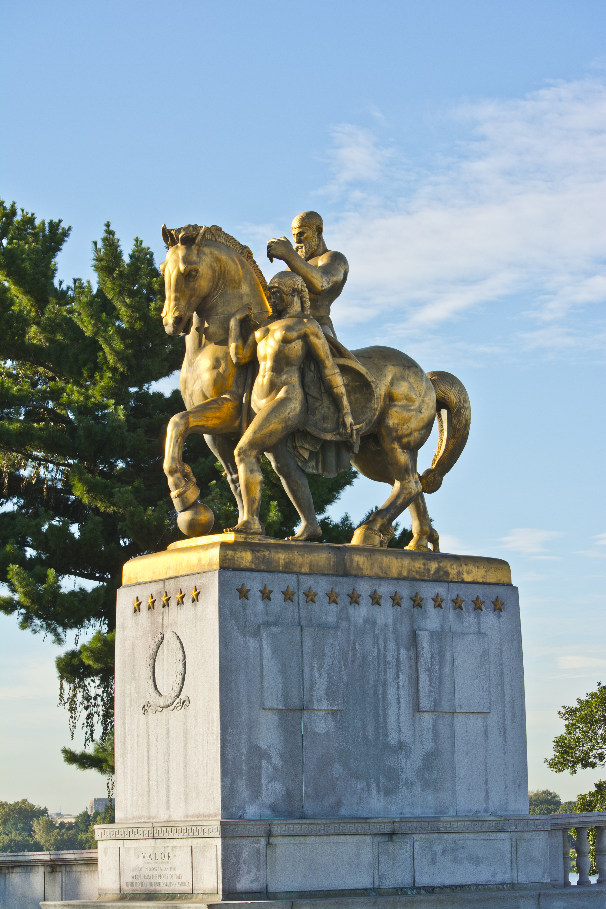 Looking at the northwest side of the statue "Valor", one of two statues that make up the work The Arts of War. The Arts of War are statues which adorn either side of the northeastern end of Arlington Memorial Bridge in Washington, D.C., in the United States. They were designed by sculptor Leo Friedlander, and erected in 1951. The statue features a nude male riding a stallion, his left arm raised. To the male's left, a woman (nude from the waist up) faces forward, her left arm trailing and holding a shield. The statue is intended to symbolize wartime valor. The statue stands atop a bronze plinth, which in turn is placed atop a granite pedestal. The pedestal has 36 bronze stars spaced equidistantly at the top, which represent the number of states in the United States at the time of the American Civil War.